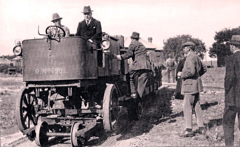 Rebuilt from a Dennis tractor, on the Canada Junction test track in August 1920, with Sir William Hoy, SAR General Manager, seated next to the driver